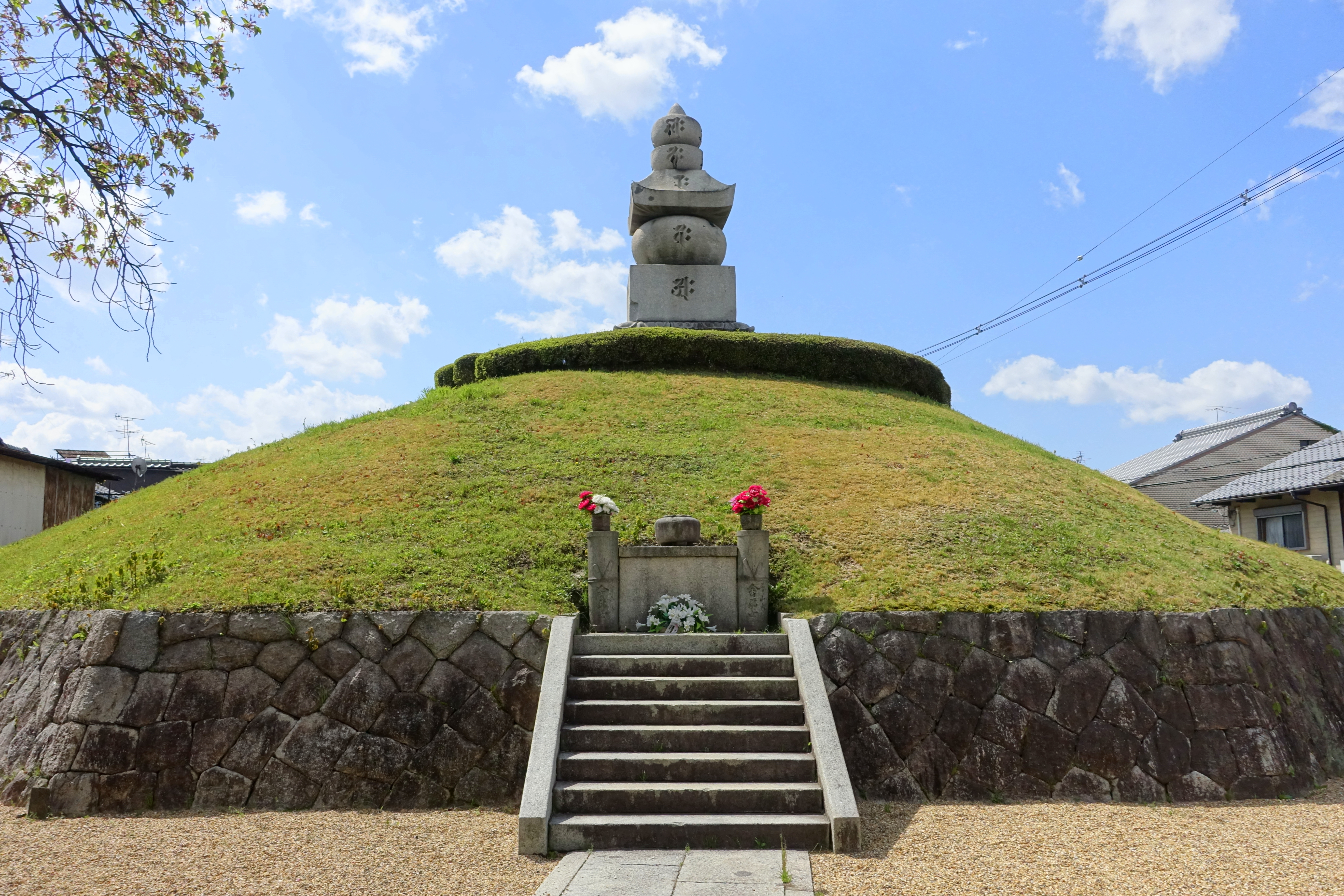 Mimizuka (耳塚) - Kyoto, Japan.